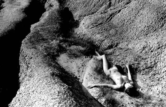 Author: Ioan Mihai Cochinescu